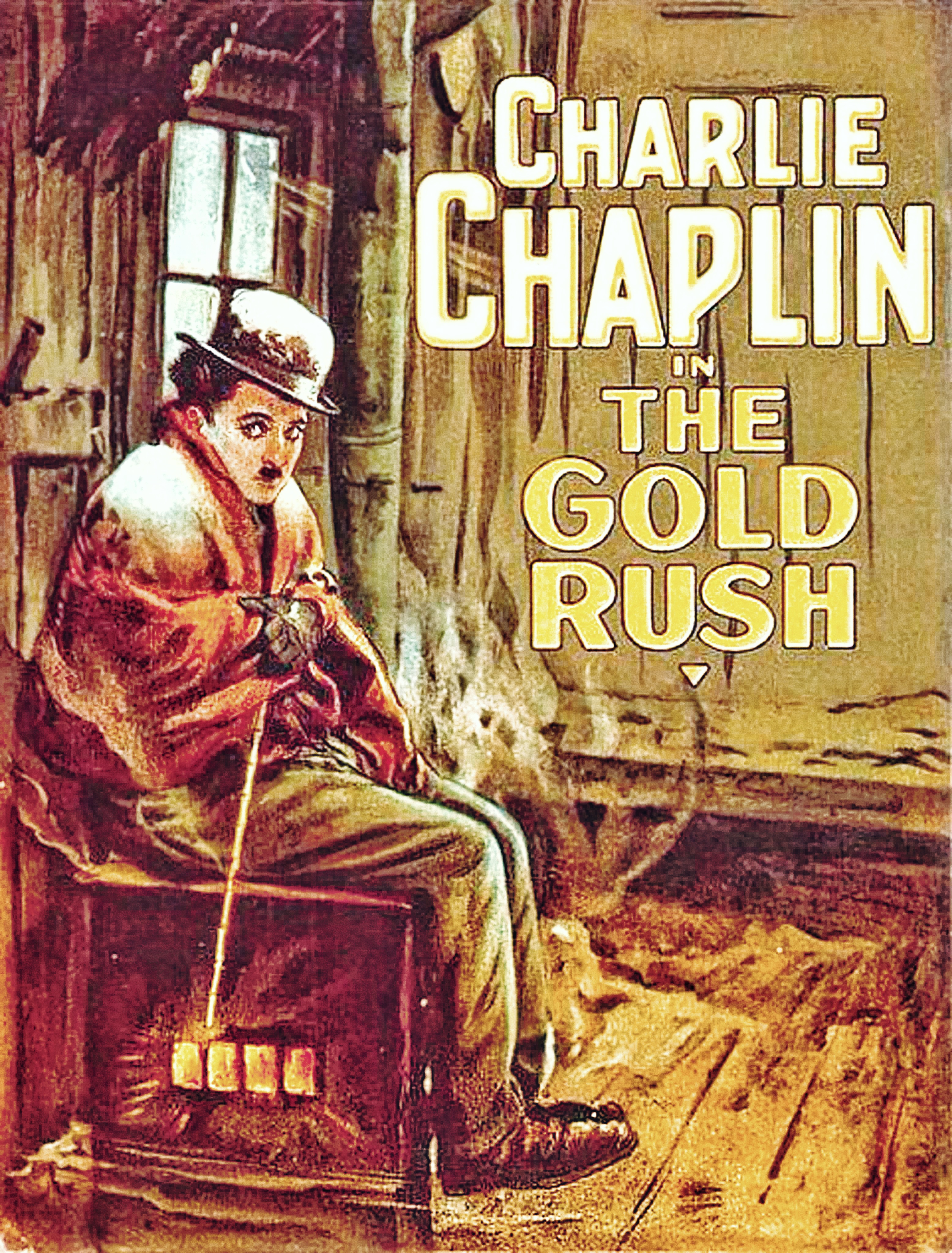 Poster for The Gold Rush, a movie starred by Charlie Chaplin.